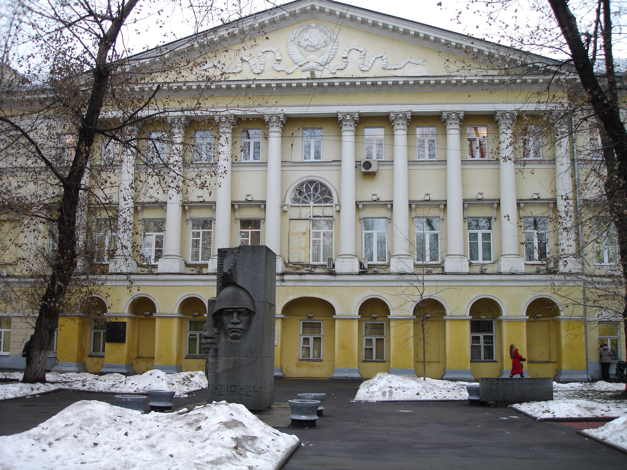 Moscow State Linguistic University